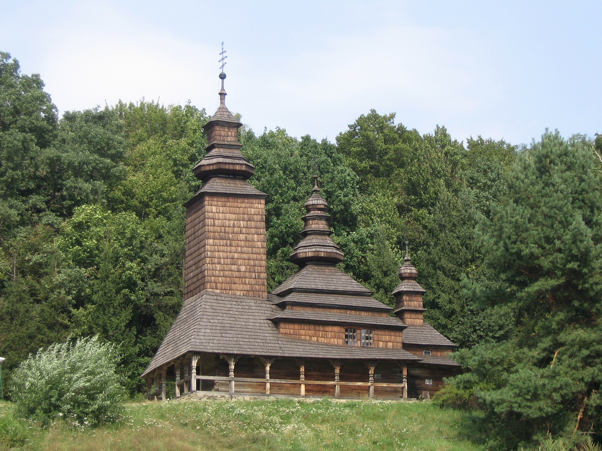 Wooden church from Kanora, now in the Museum of Folk Architecture and Ethnography, Pirogiv near Kiev